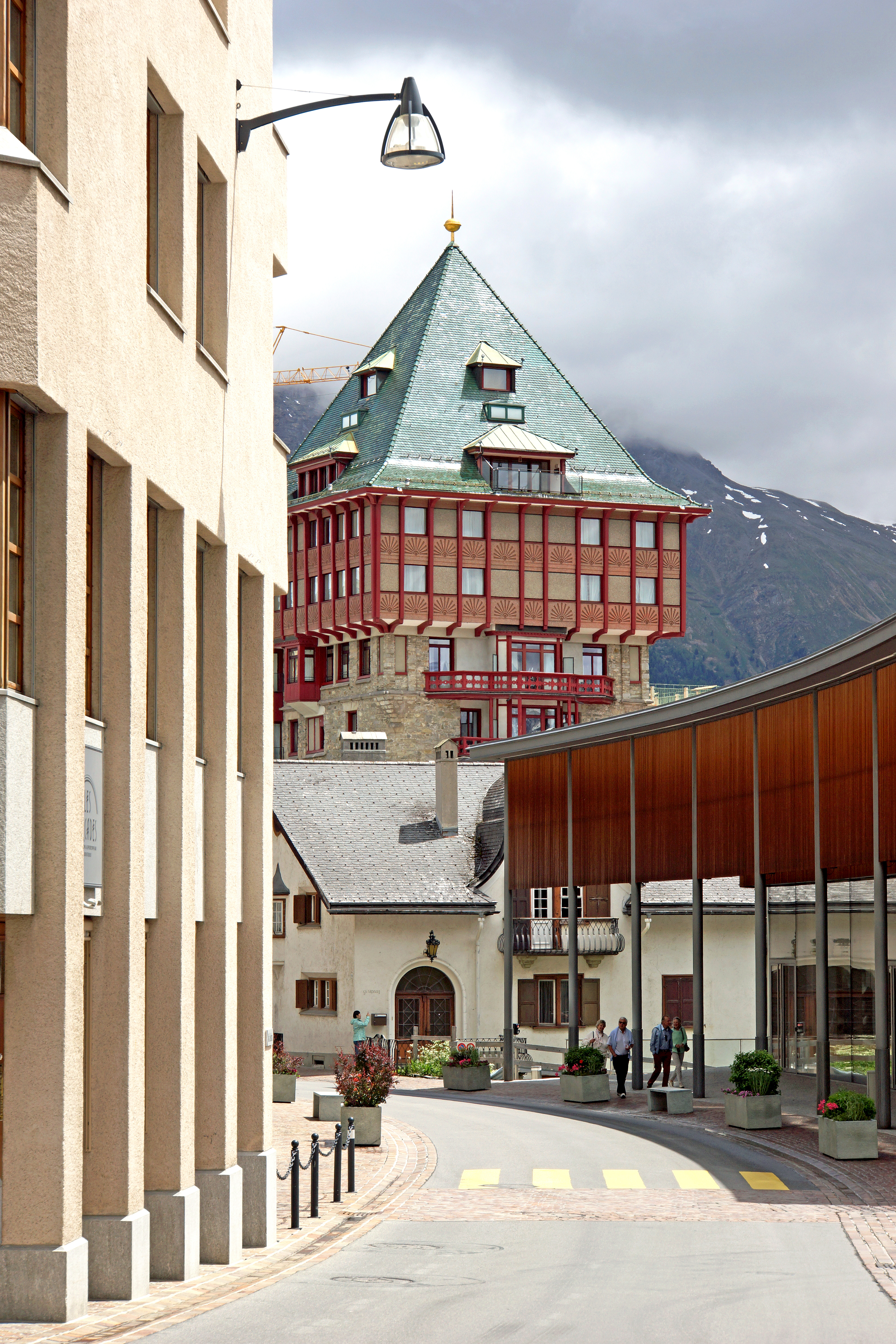 PLEASE, NO invitations or self promotions, THEY WILL BE DELETED. My photos are FREE to use, just give me credit and it would be nice if you let me know, thanks. The history of the hotel and the family Badrutt started in 1856, when Johannes Badrutt (above)bought a small guesthouse in St. Moritz and started to rebuild it, to create the Hotel Engadiner Kulm, which is today known as the Kulm Hotel St.Moritz. He had built an artificial coasting slide and a curling ground for his guests. In 1864, the son of Casper Badrutt bought the Hotel Beau Rivage in St. Moritz and altered it to create the Badrutt’s Palace Hotel we see today.